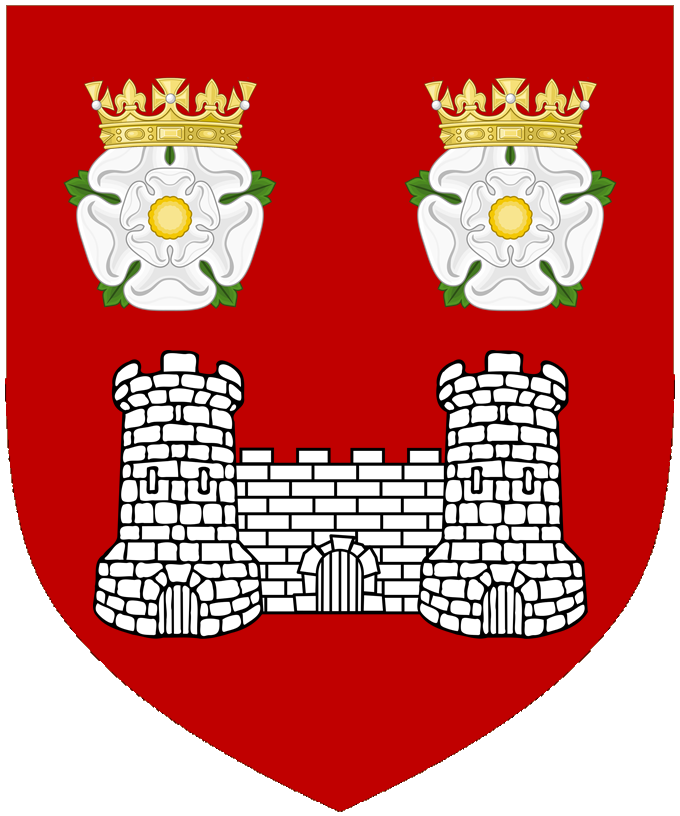 Shield of arms of The Richard III Society